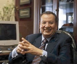 Ibrahim El Moallem, Chairman and CEO of Dar El Shorouk